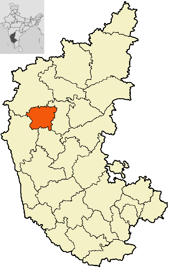 Locator map of Dharwad district, Karnataka, India